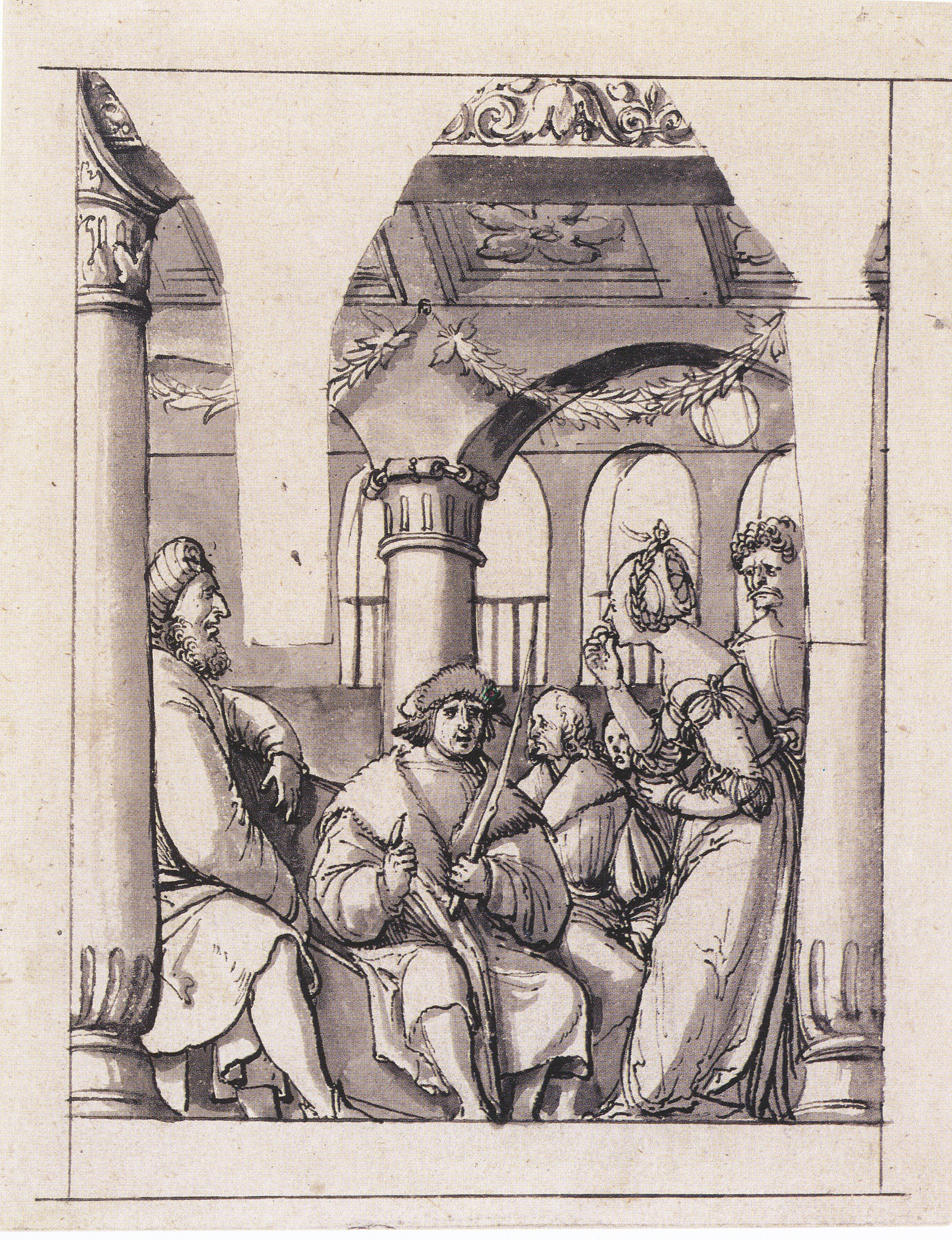 Leaina Before the Judges, mural design for the Hertenstein House in Lucerne. Black and grey pen and brush, with grey wash, 21.2 × 16.4 cm, Kunstmuseum Basel Holbein drew this design for the murals for the façade of the merchant Jakob von Hertenstein's house in Lucerne, Switzerland, between 1517 and 1519. The murals themselves no longer exist. The drawing shows Leaina, a legendary courtesan from ancient Athens. She bites off her tongue rather than testify to judges against her lover Aritogeiton, the tyrannicide.